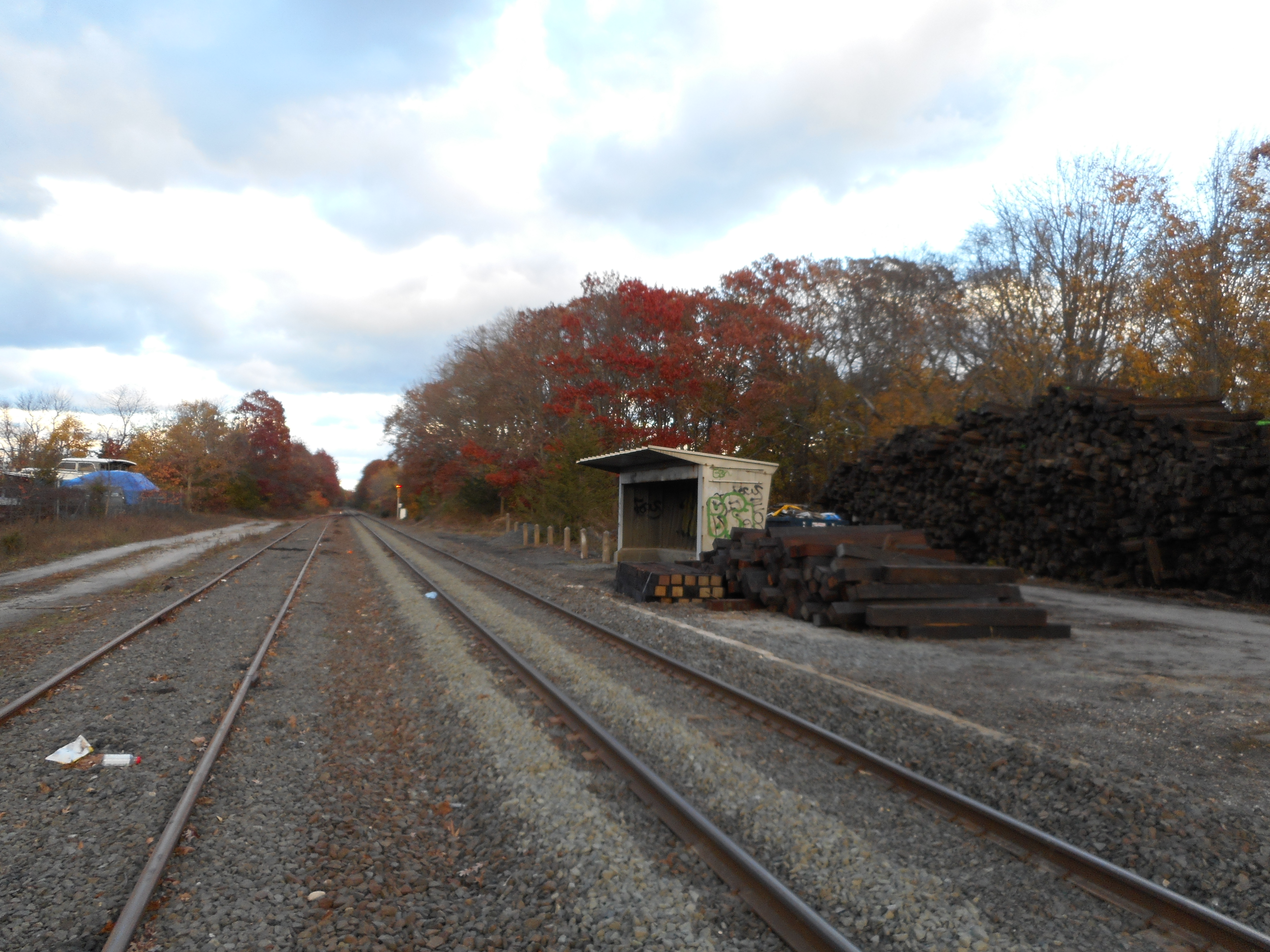 The shelter for Calverton (LIRR station), in Calverton, New York. Despite the fact that the station itself has been closed by the LIRR since 1958, the metal shelter still stands as of November 2014!